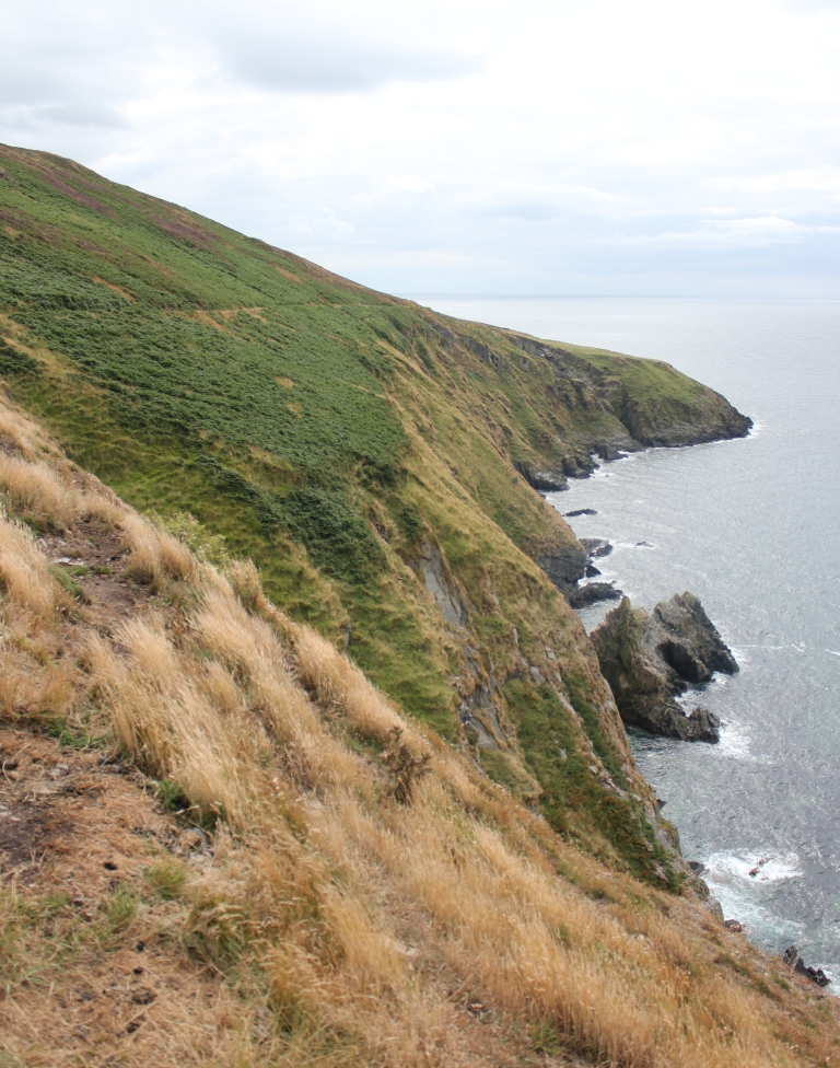 The view south from the coastal footpath near Corrin's Folly, near Peel in the Isle of Man.